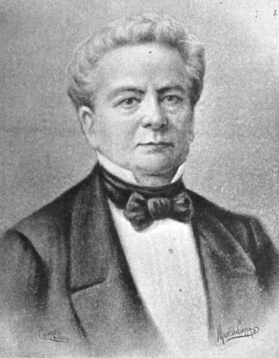 Portrait of F. Freire Allemao of Brazil.